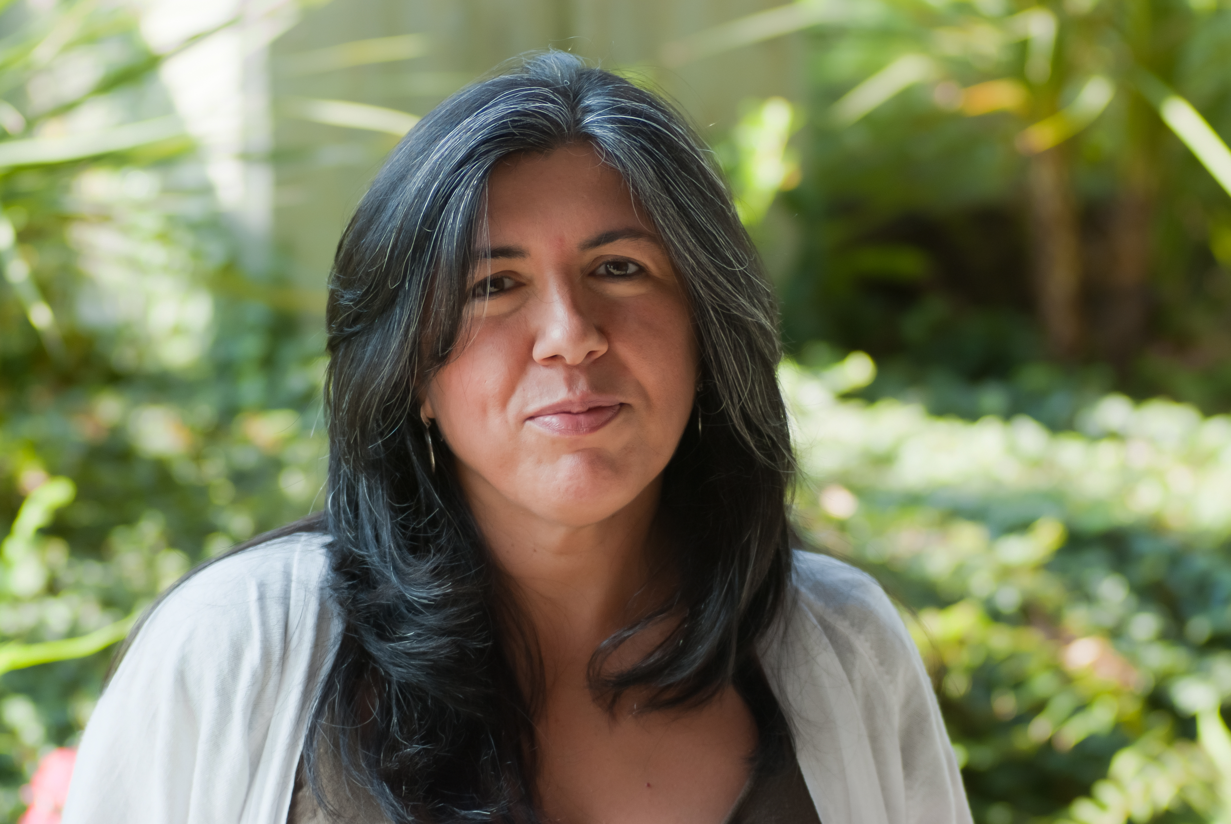 Photograph of Begoña Paz